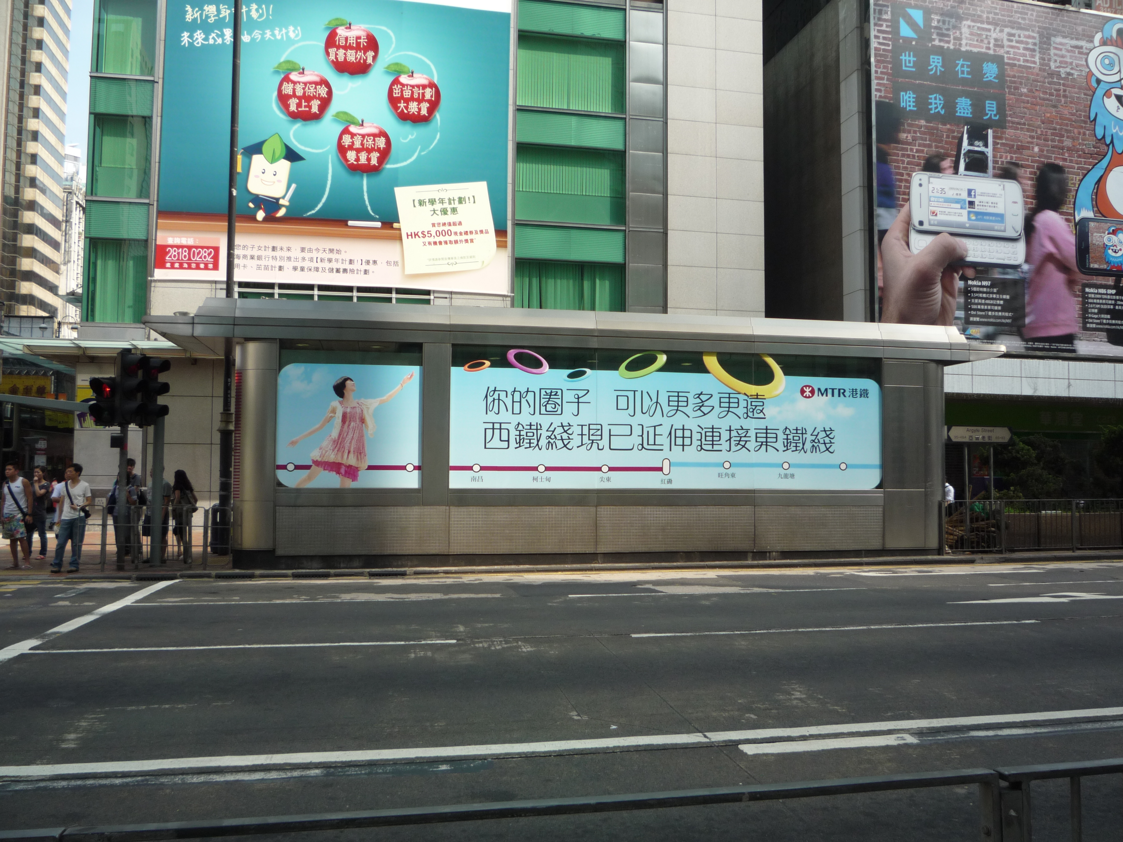 Appearance of MTR Mong Kong Station Exit D1